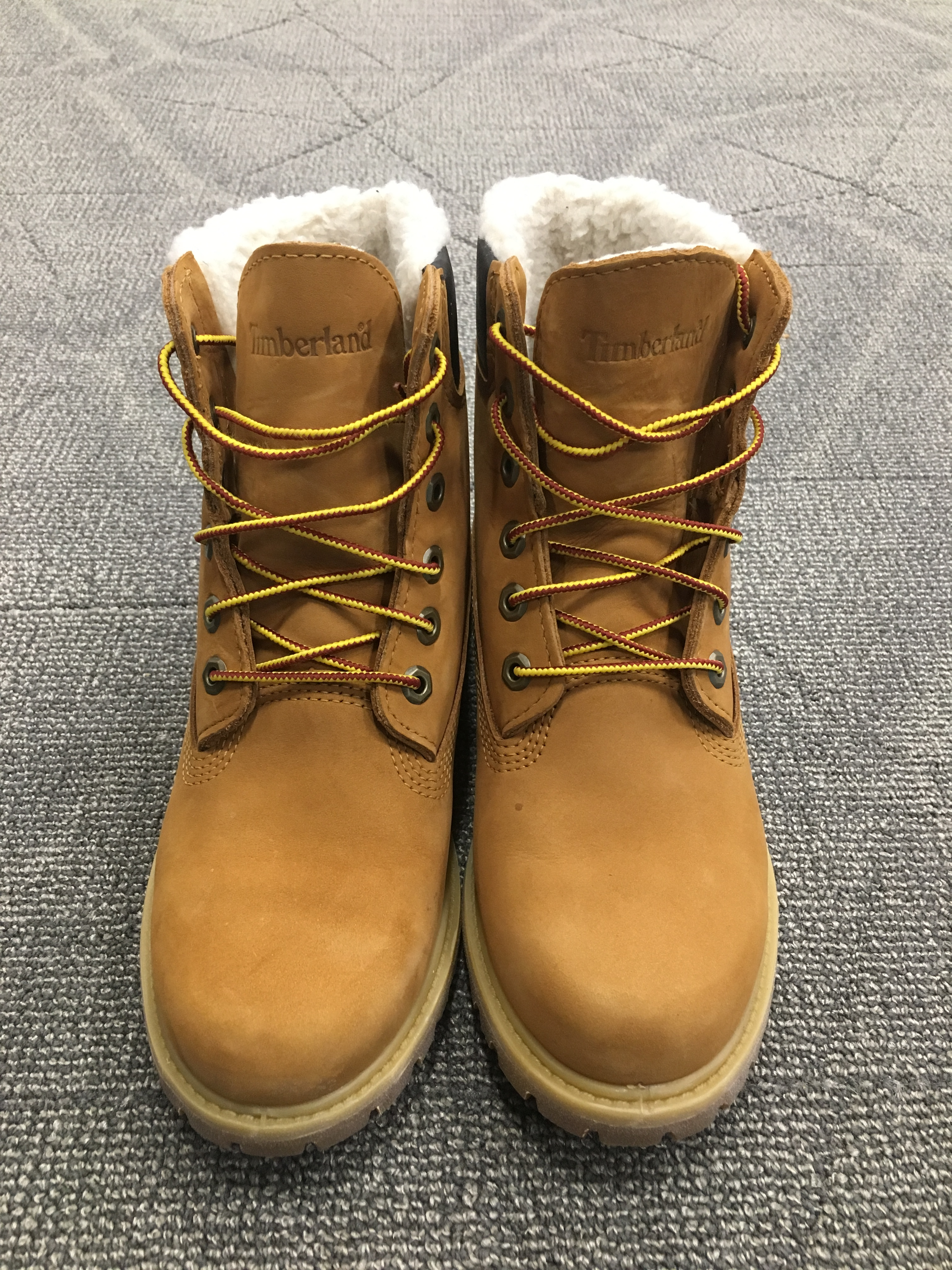 This is an image of Timberland Fleece Lined Winter Boots.